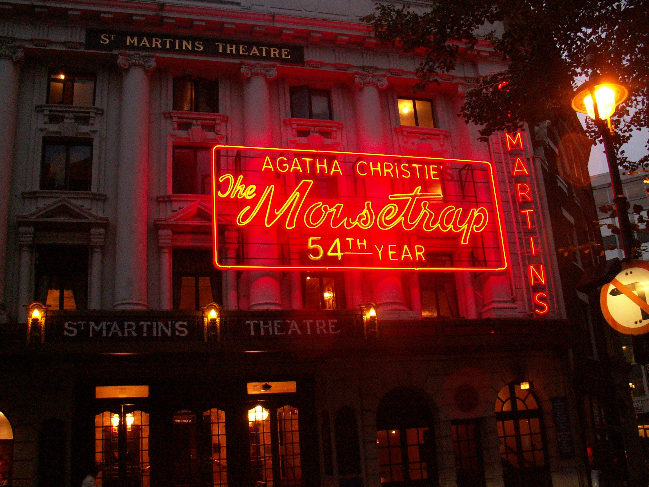 The Mousetrap at St Martin's Theatre